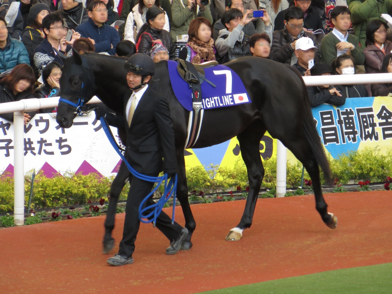 Brightline (Racehorse of Japan).